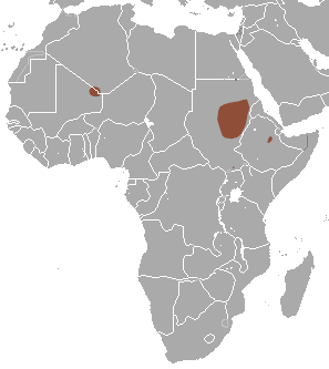 Sahelian Tiny Shrew (Crocidura pasha) range